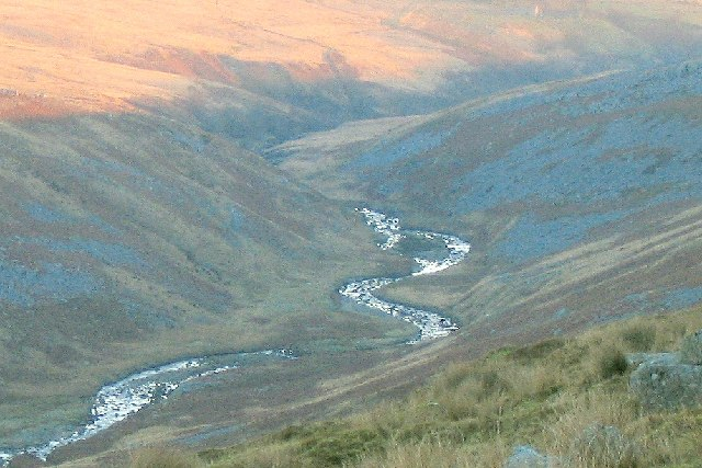 River Twrch. This is a view of the river Twrch looking south downstream from the side of Pen yr Helyg. Protruding in from the left of the picture is the very southmost end of Tyle Garw.